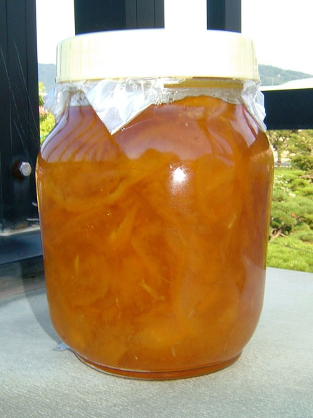 Yuja cha, Korean traditional tea made of citron and sugar.